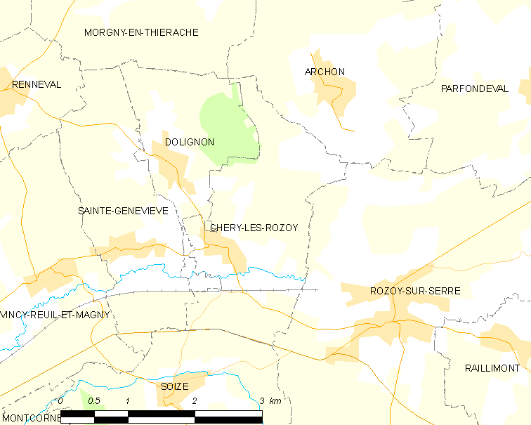 Map of French commune: Chéry-lès-Rozoy Map commune FR insee code 02181.png